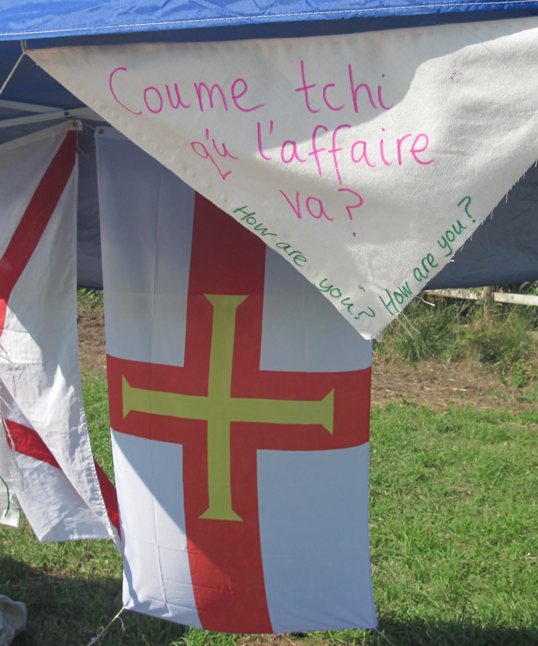 Sark Folk Festival 2011